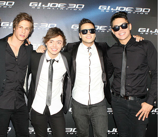 The Collective at the G.I. JOE: RETALIATION - Red carpet movie premiere at Event Cinemas, Sydney, Australia 2013.